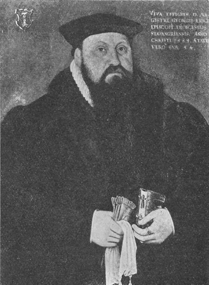 Jørgen Eriksen, bishop of Norway in the 16th century.